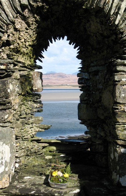 Kilnave Church east window The east window of the ruined church with an offering of Easter flowers and a fine view across the loch.